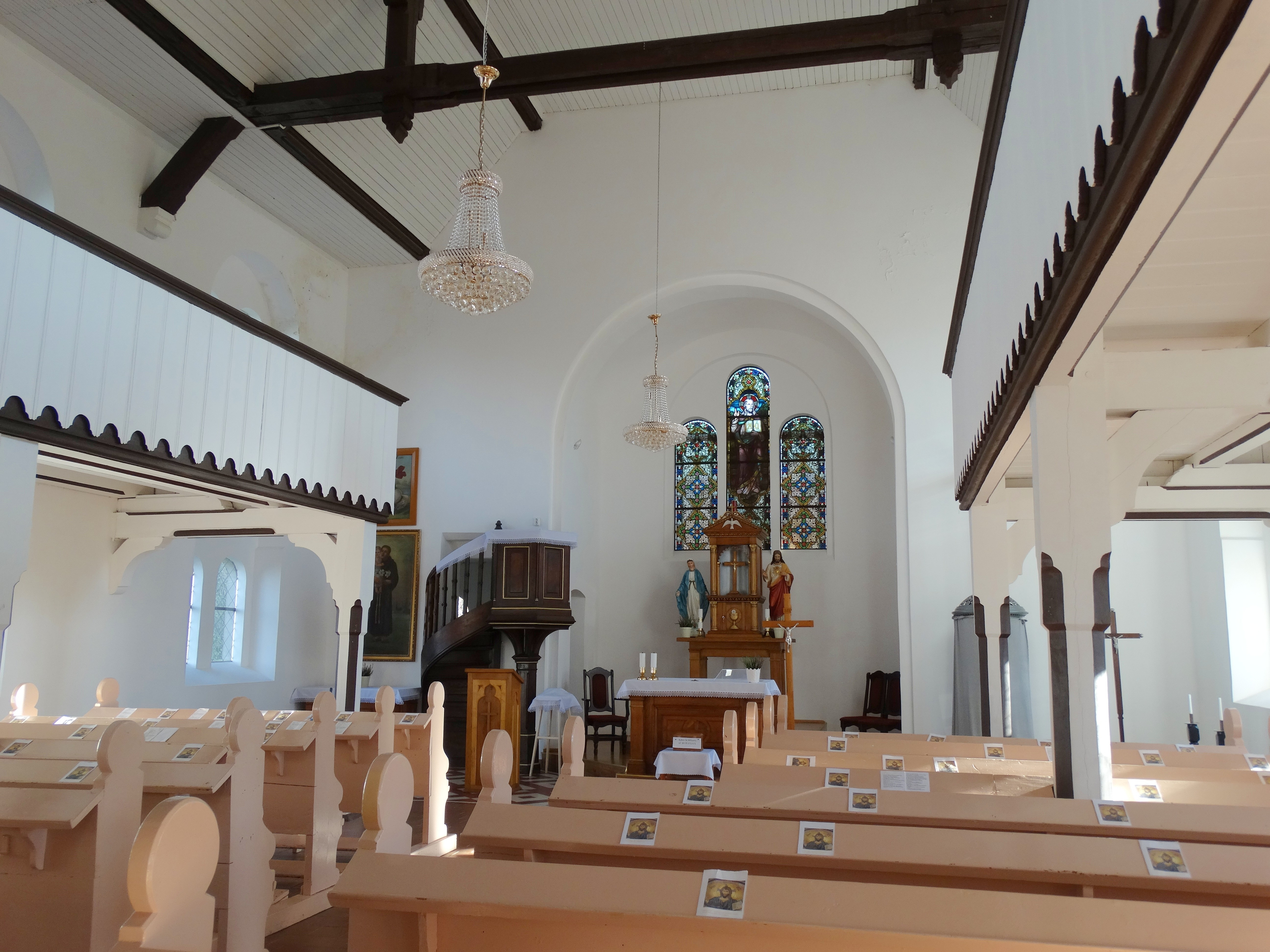 Evangelical Lutheran Church, Rukai, Pagėgiai Municipality, Lithuania